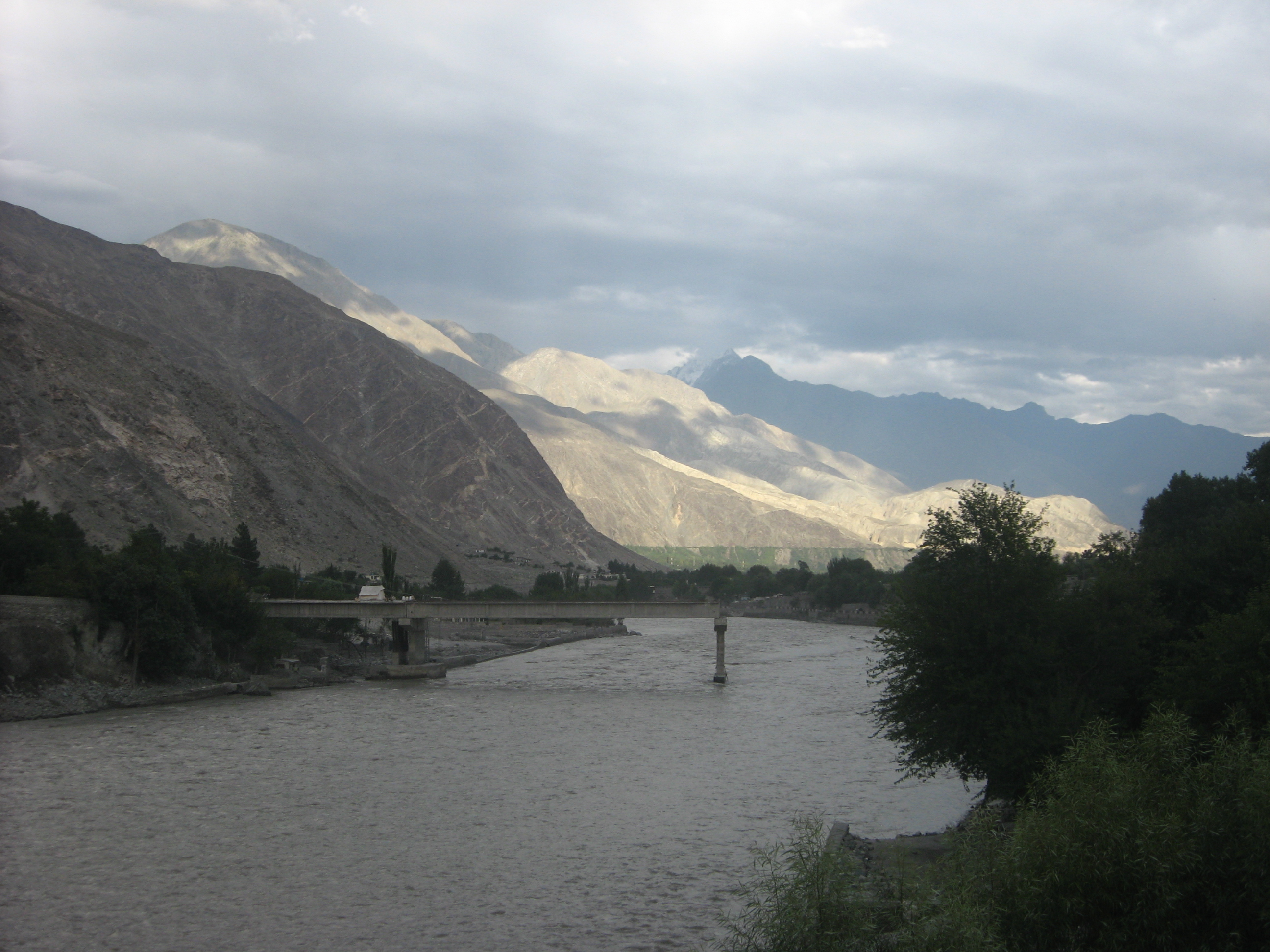 Gilgit River at sunset, Gilgit, Gilgit-Baltistan, Pakistan